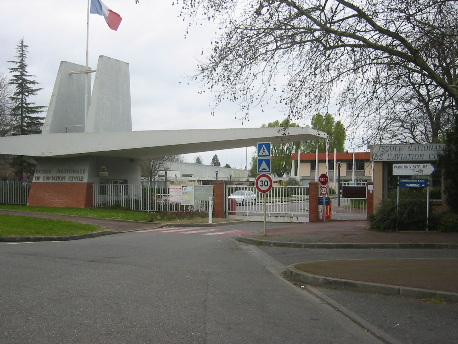 Entrée de l’ENAC Toulouse en 2007, avenue Edouard Belin